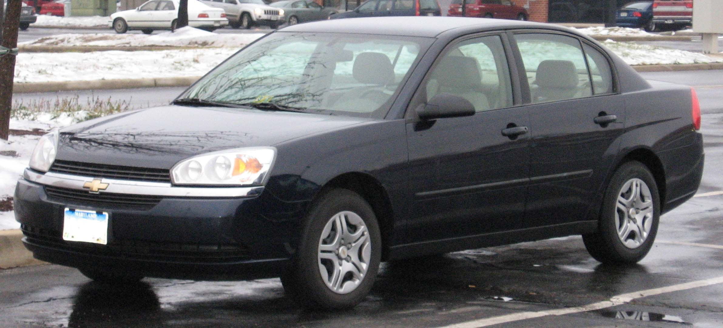 2004-2005 Chevrolet Malibu photographed in USA.